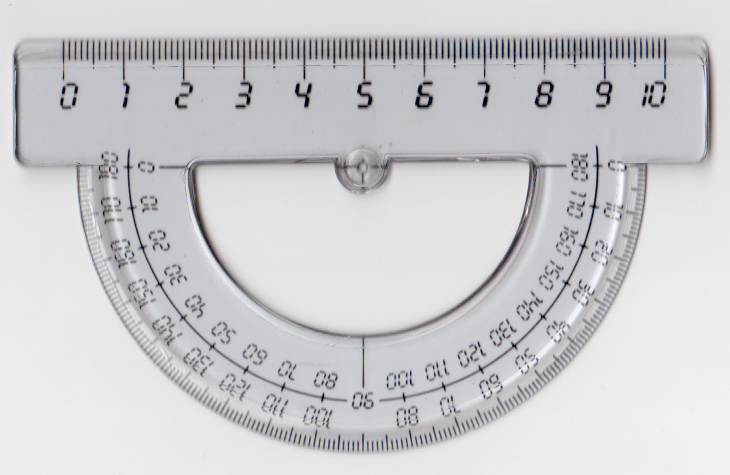 Scan of a plastic protractor